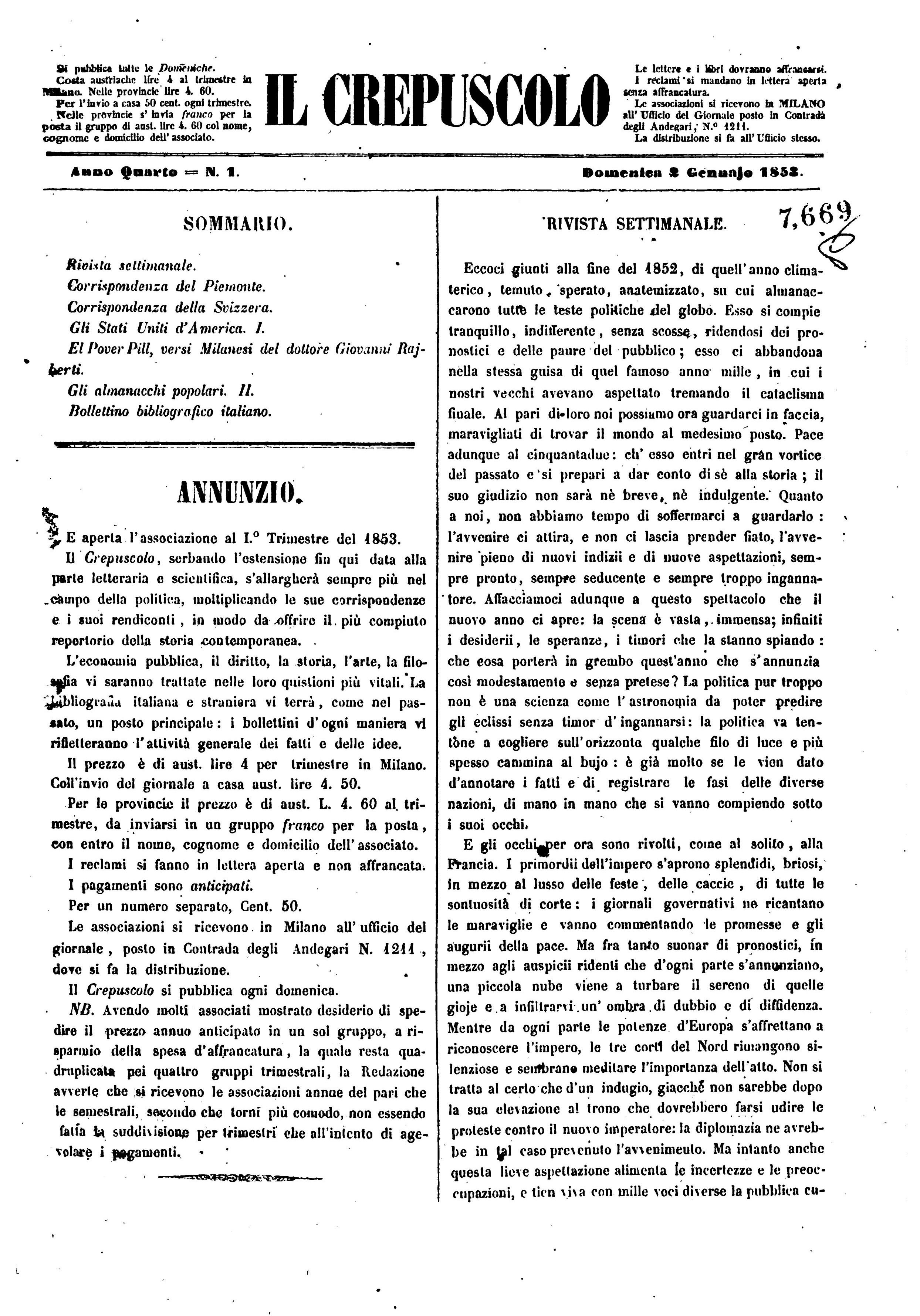 first page of risorgimental magazine Il Crepuscolo 8 january 1852